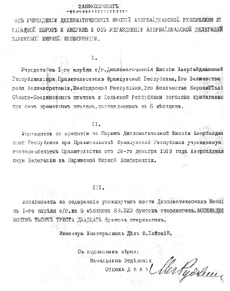 Law od Azerbaijan Republic about diplomatic missions